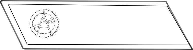 Emblem of Military and administrative troops in Red Army 1936-1942